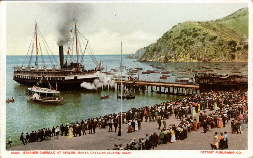 Santa Catalina Island CA - Steamer Cabrillo at Avalon